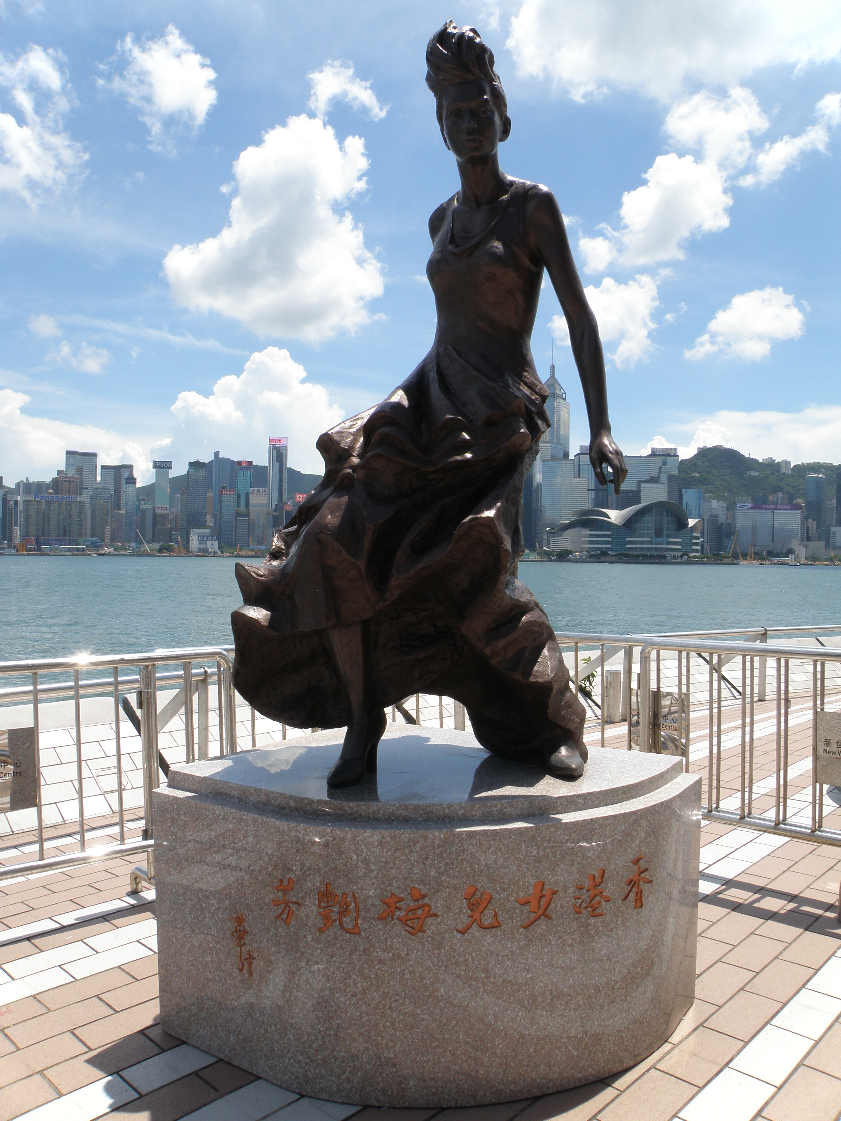 Bronze statue of Anita Mui (Hong Kong deceased artist)